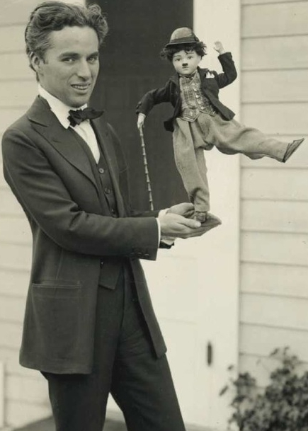 Charlie Chaplin holding a doll version of his popular film character.